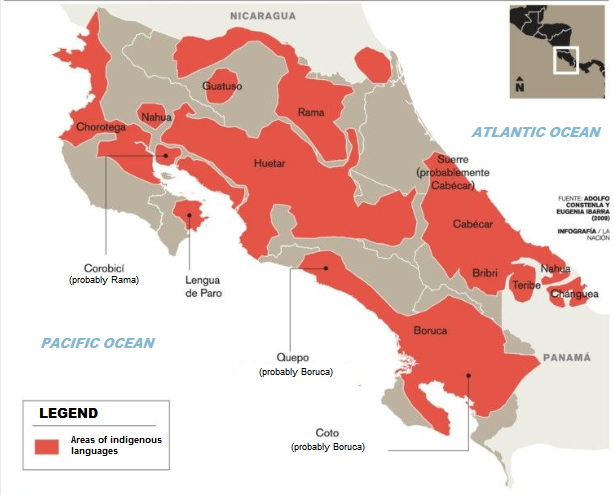 Map of indigenous languages of Costa Rica before the arrival of the Spanish English translation of